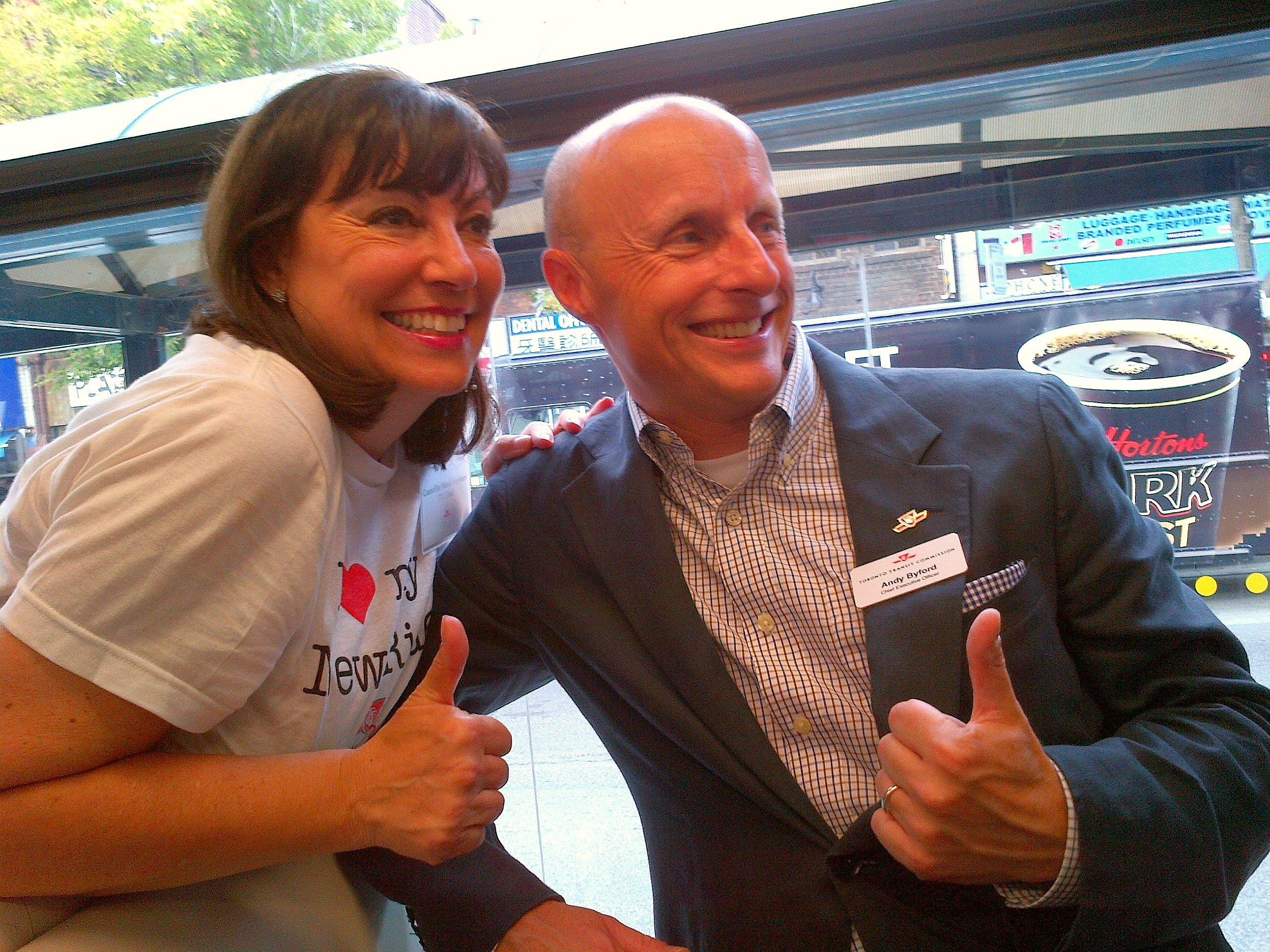 Maria Augimeri and Andy Byford at Spadina Station in Toronto